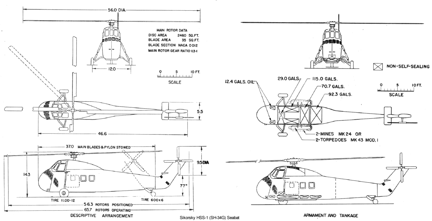 Line drawings for the U.S. Navy Sikorsky HSS-1 (SH-34G) Seabat anti-submarine helicopter.